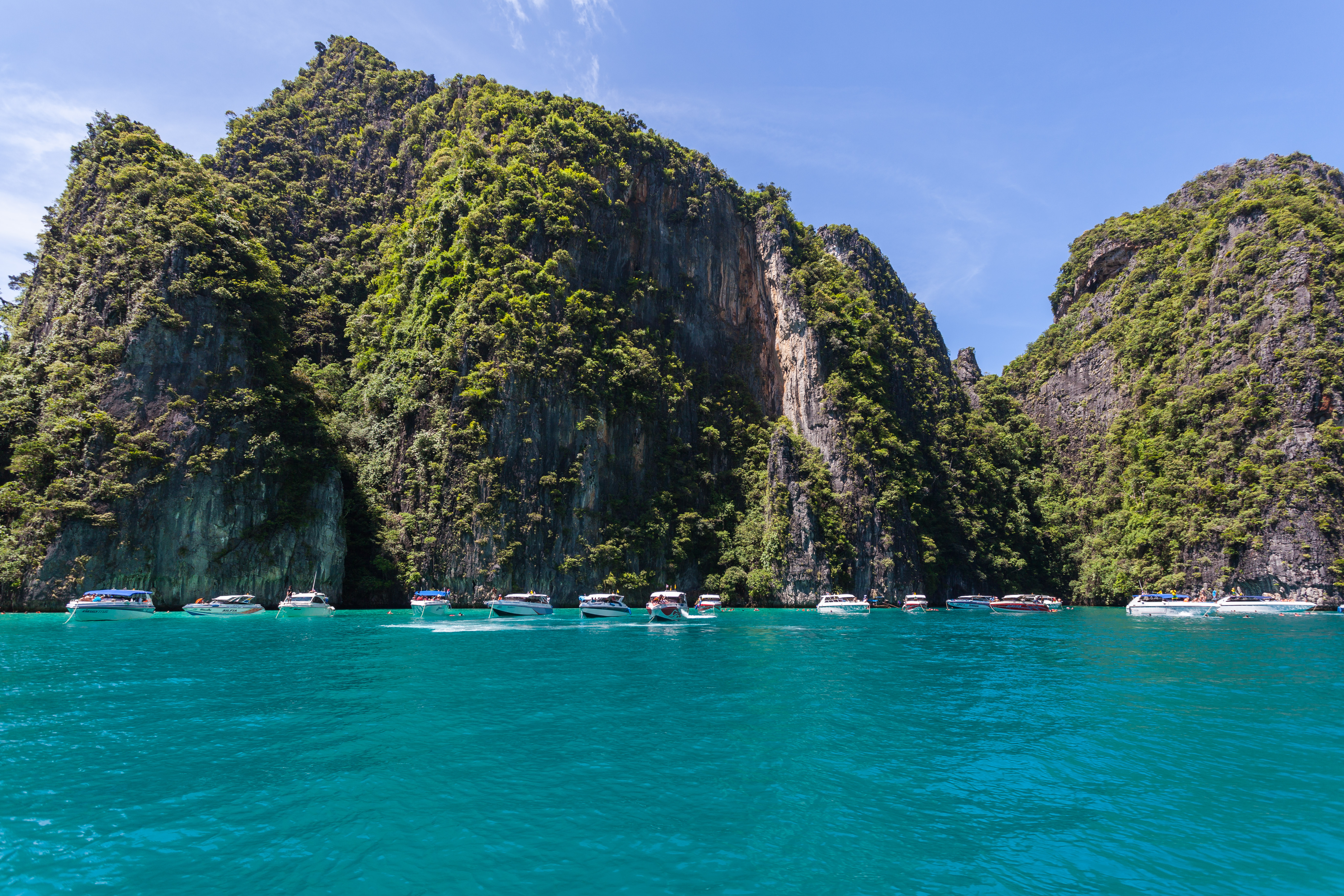 Phi Phi Lay Island, Thailand